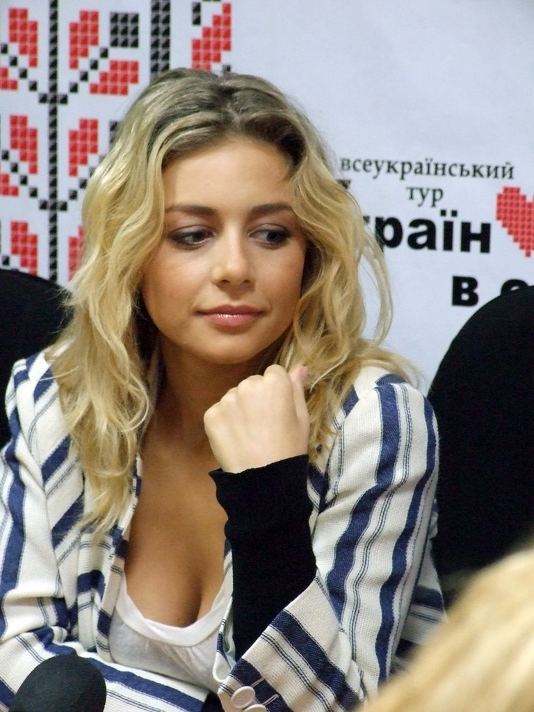 Tour "With Ukraine in my heart"